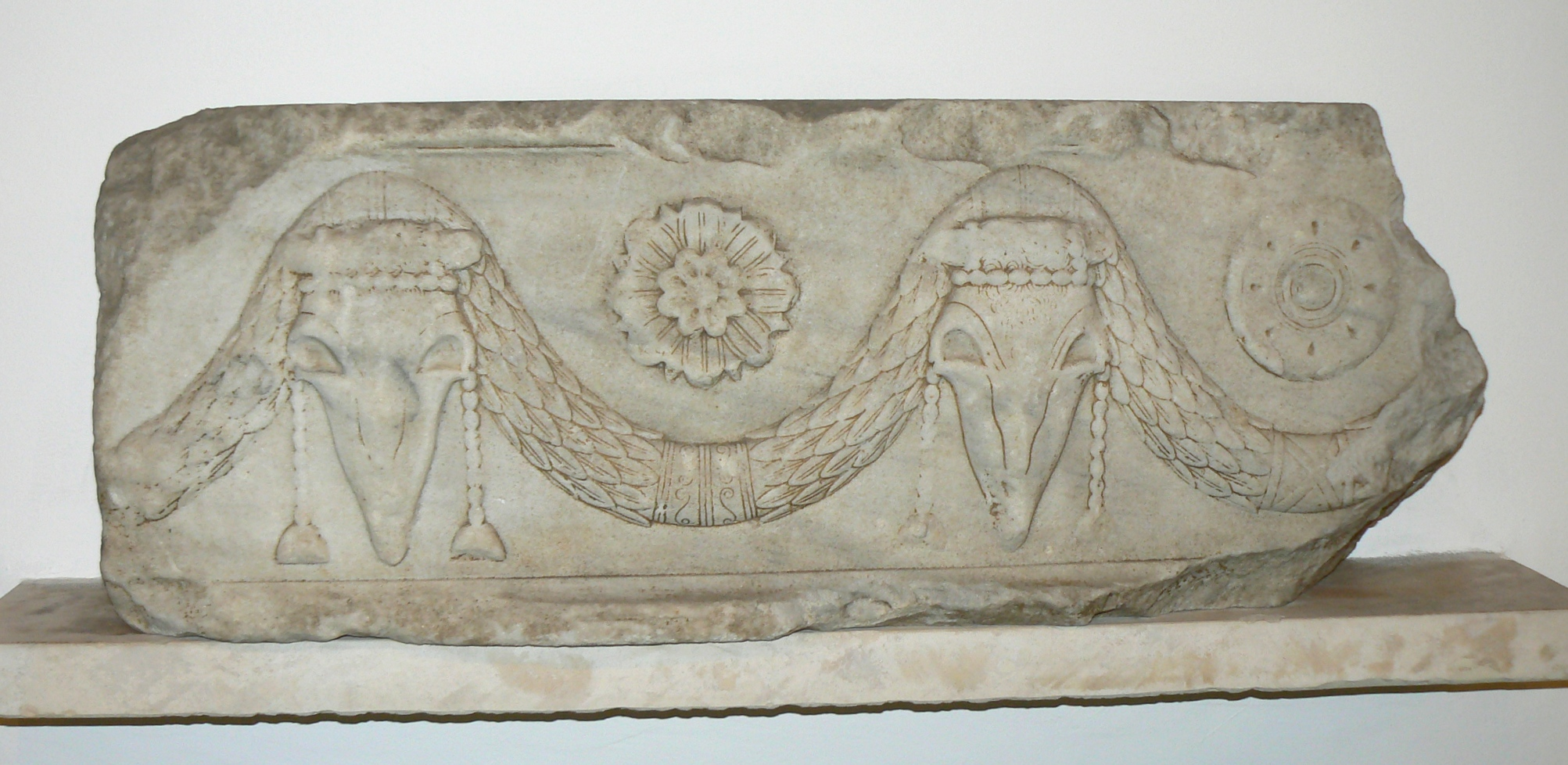 Marble architrave with bucrania decoration, 3-2 century BC. Burgas Archeology Meseum